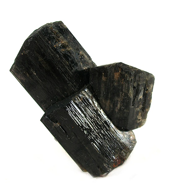 Richterite Locality: Wilberforce, Monmouth Township, Haliburton County, Ontario, Canada (Locality at ) Size: miniature, 4.4 x 3.1 x 1.2 cm Fluor-richterite Just a darned fine example of this rock-forming mineral, with good lustre, good sharp termination, and good form. You almost never see these occur so beautifully-crystallized and so the mineral is often dismissed as non-worthy of a fine collection. The cluster is also a floater.